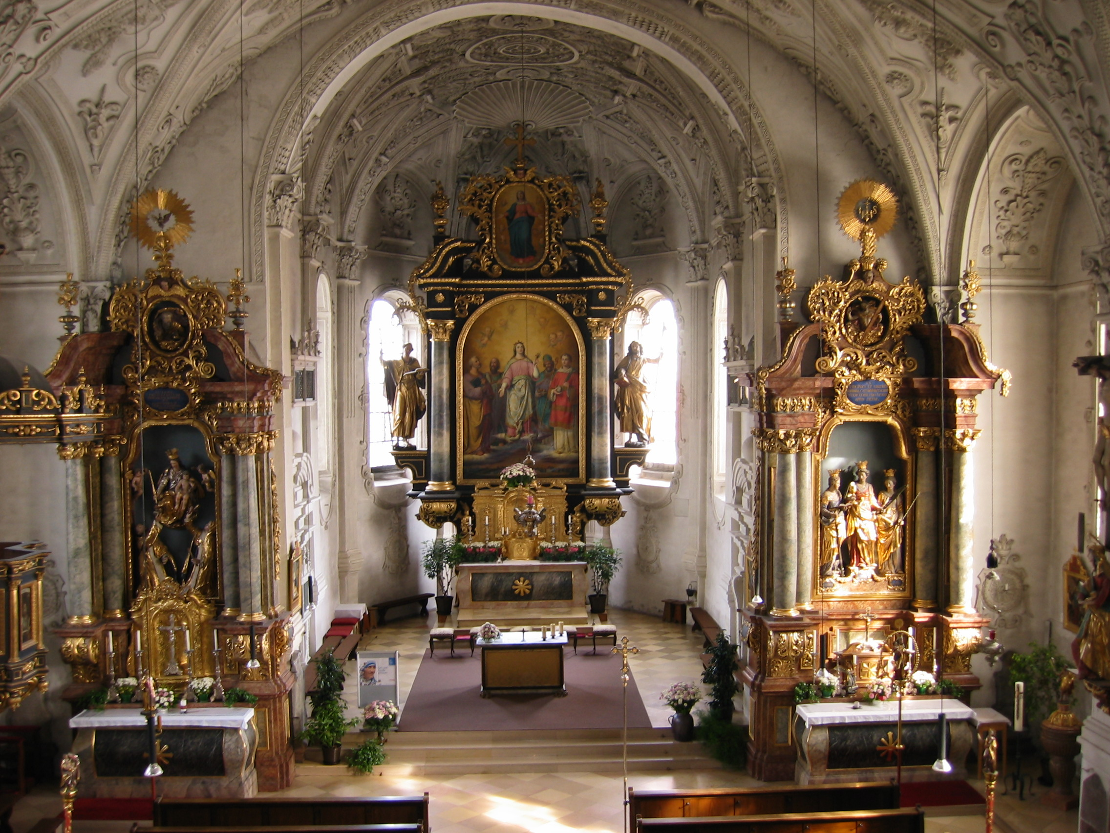 Roman catholic parish church St. Margaret Markt Schwaben, Germany. Interior view